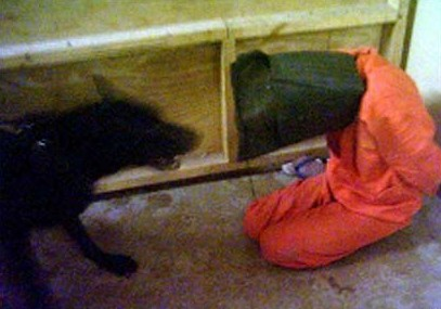 Abu Ghraib, Dec. 30, 2003. U.S. Army / Criminal Investigation Command (CID). Seized by the U.S. Government.